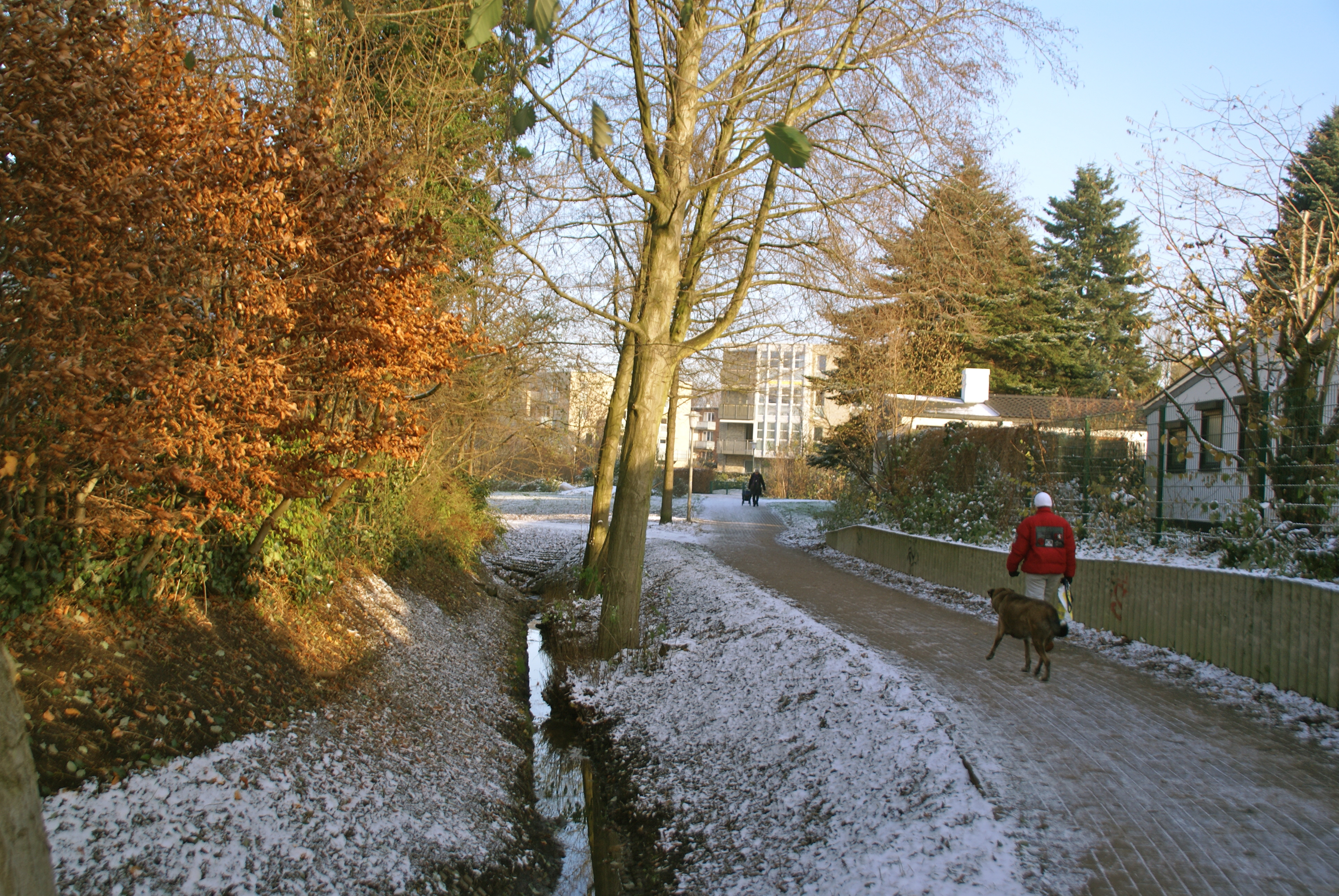 Hamburg (Bahrenfeld), Germany: The walk at the river Schillingsbek